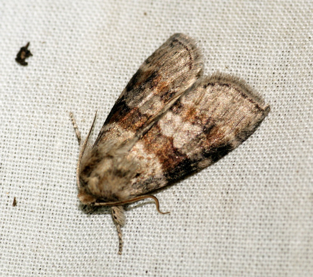 Thorndon County Park - 125w MV Robinson Trap